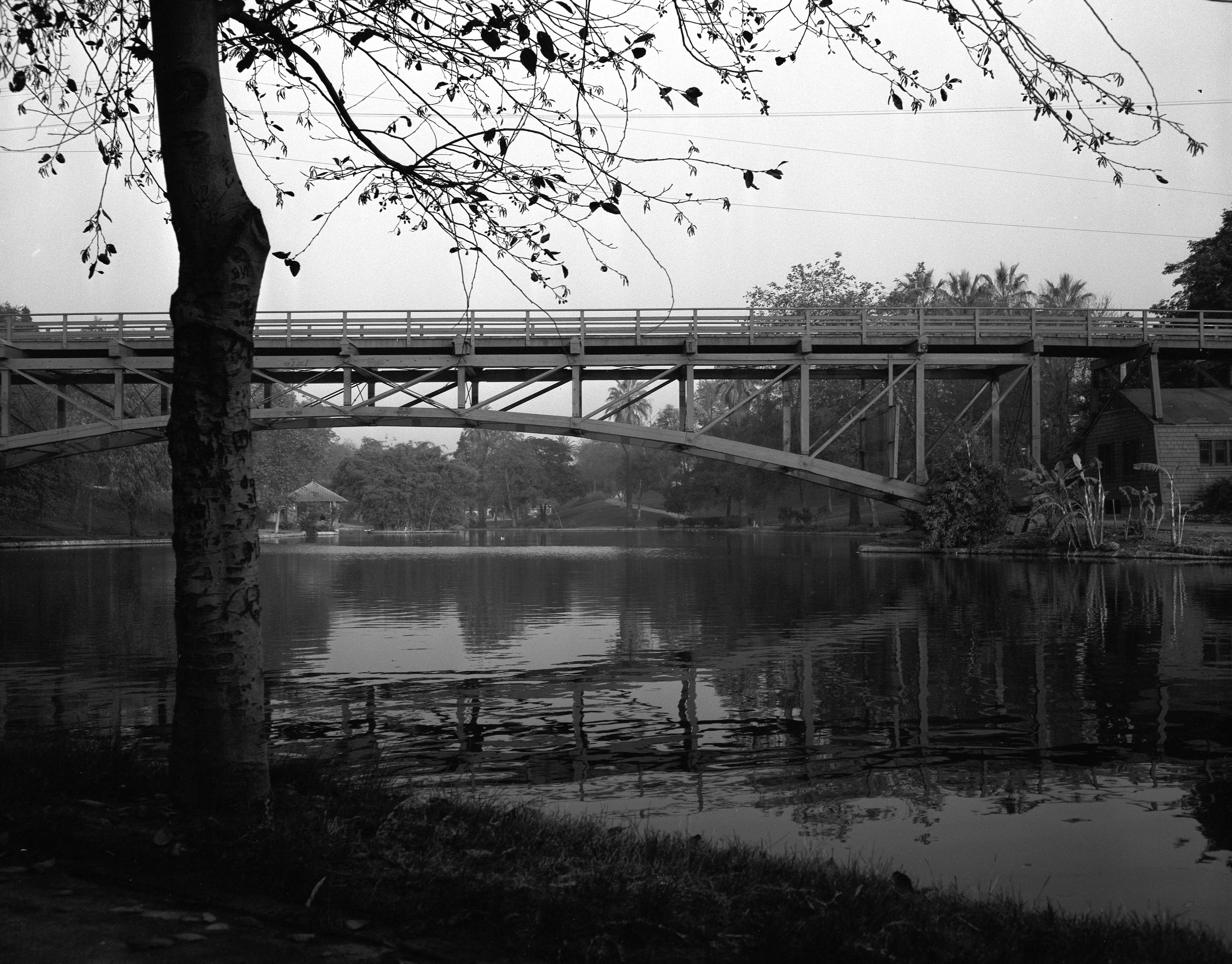 Title: Know Your City No.29 — Bridge and lake at Hollenbeck Park - Los Angeles, Calif. Published caption KNOW YOUR CITY, NO. 29 -- Look at that bridge again and you're almost certain to guess where this was taken. Only one place in town with a span like that. It’s for people, not trains. See Page 32, Part 2. Notes ANSWER: Sure, it's the lake in Hollenbeck Park, the photo being made near the Boyle Ave. entrance. The park acquired its name for the very logical reason that most of its acreage was given to the city by Mrs. J.E. Hollenbeck. (Correction: It was erroneously reported that most of the acreage for the park was donated by Mrs. J.E.Hollenbeck. Actually, two-thirds of the property was donated by Mr. and Mrs. William H. Workman and it was their suggestion that the park be named for J.E. Hollenbeck, a close friend.) correction from 12/31/1955 paper. Publication Los Angeles Times Publication date December 16, 1955 Subjects Hollenbeck Park (Los Angeles, Calif.)--Boyle Heights--John Edward Hollenbeck--William H. Workman--footbridges Source Los Angeles Times photographic archive, Digital collections — UCLA Library. [1] Note about non-renewal of copyright: [2]